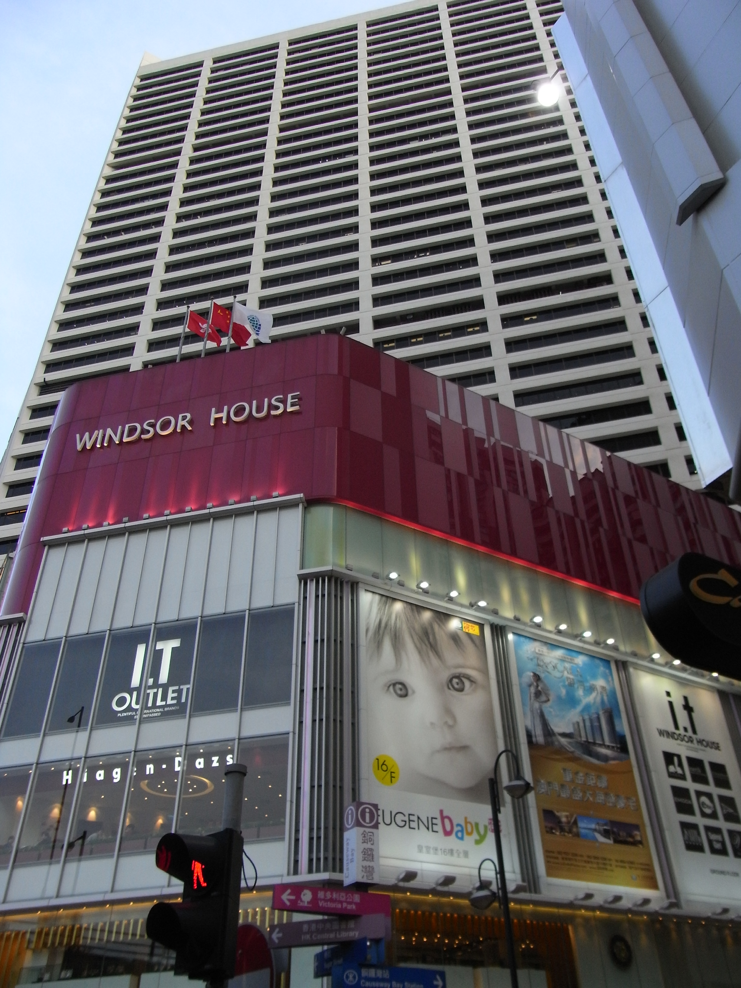 銅鑼灣 記利佐治街, Great George Street, Causeway Bay, Hong Kong